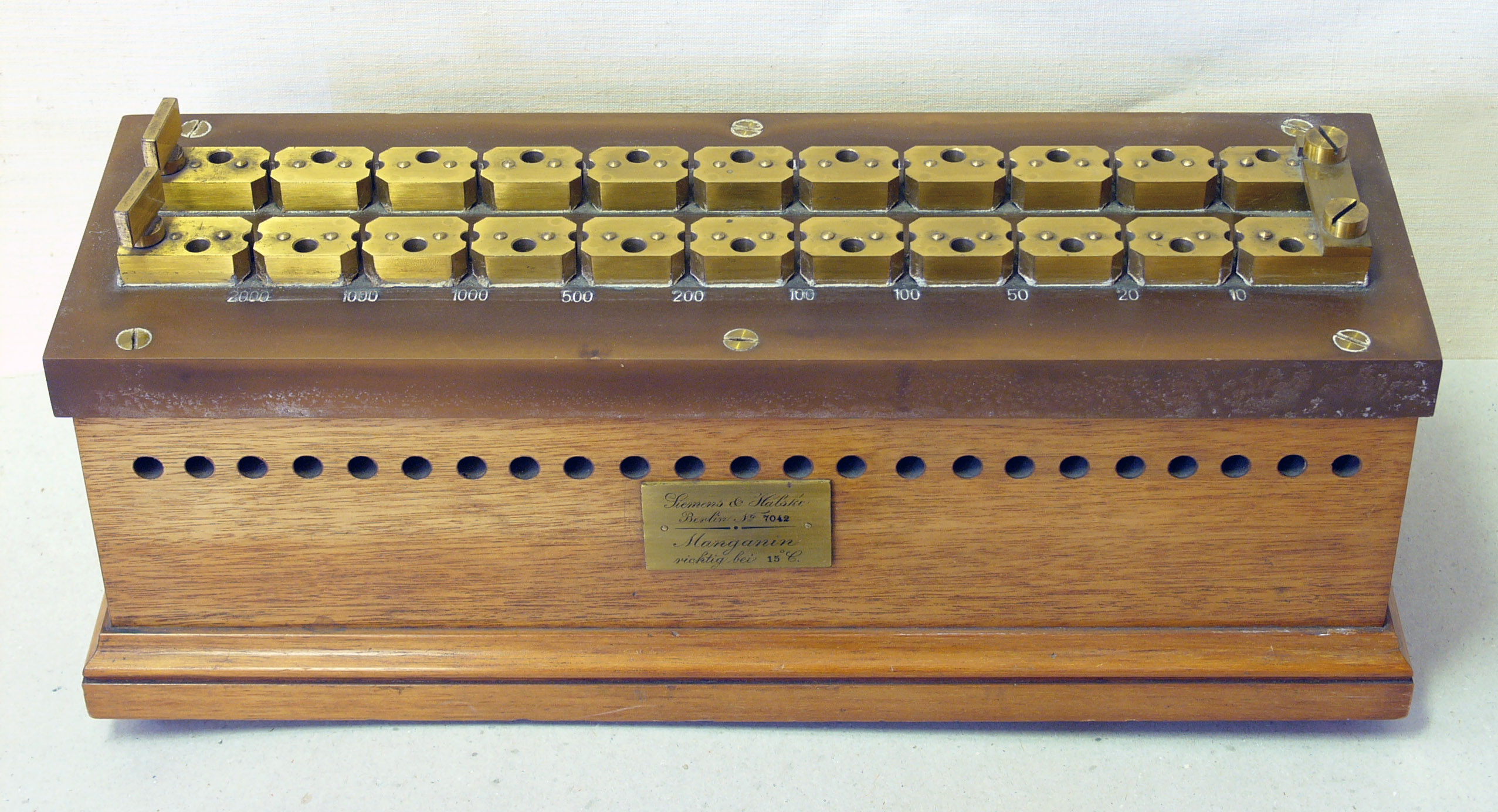 Plug-resistor box, used in demonstrations of Wheatstone bridge in science education around 1900, on display in the Schulhistorische Sammlung (School Historical Museum), Bremerhaven, Germany. Shorting plugs (not shown) could be inserted in the holes to make up a wide range of resistance values.